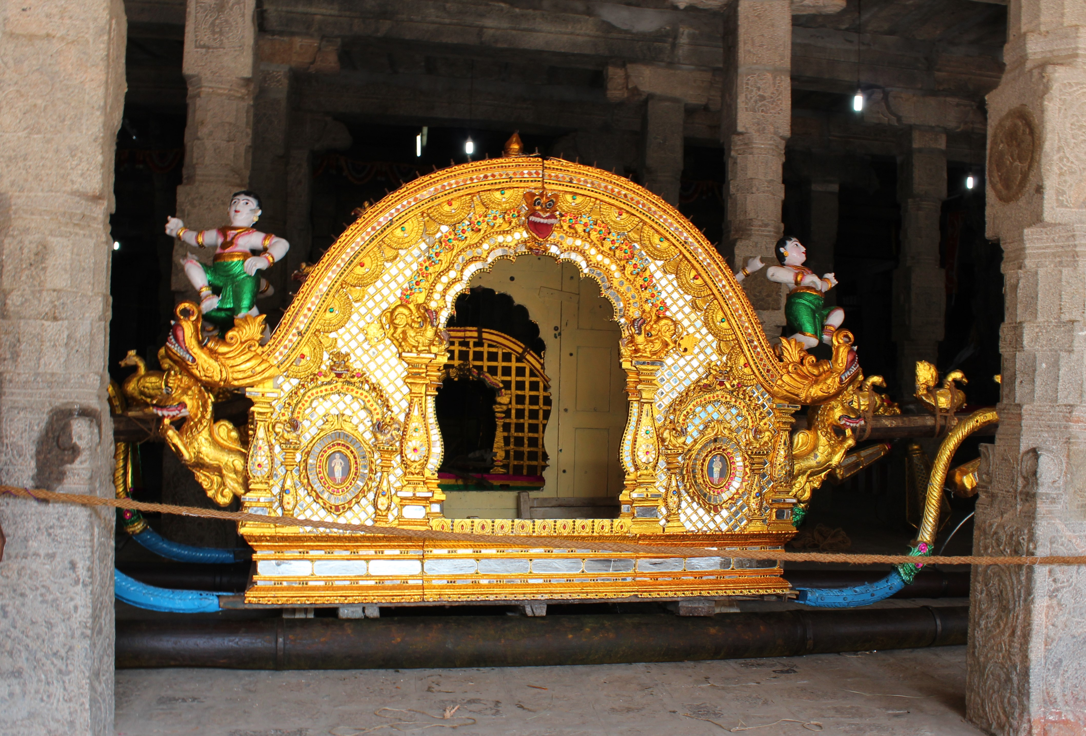 Aiyarappar temple Thiruvayyaru